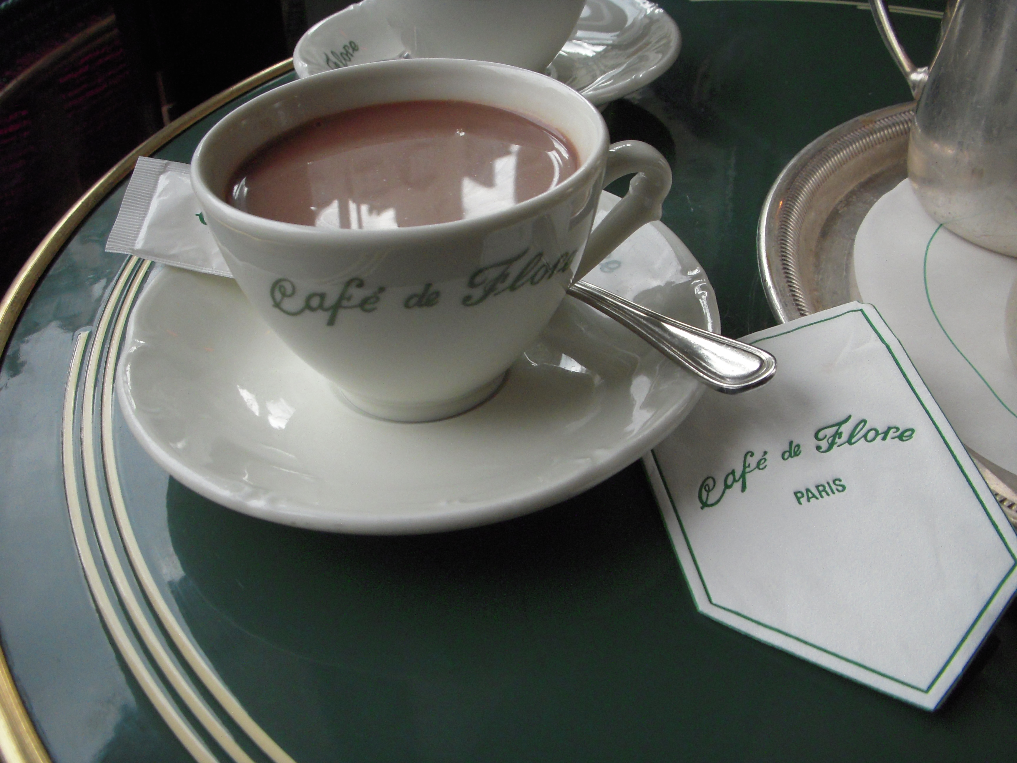 Hot chocolate on 'Café de Flore' on Blvd. Saint-Germain in Paris. April 8, 2010.